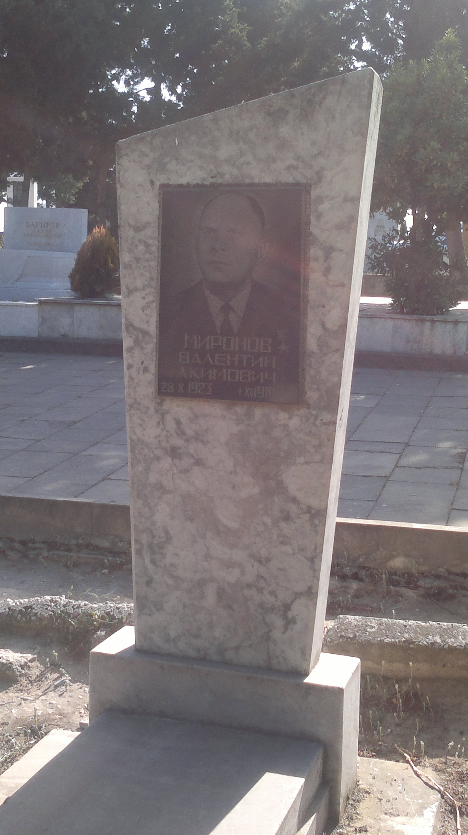 Burial of Valentin Mironov at II Alley of Honor (Azerbaijan)